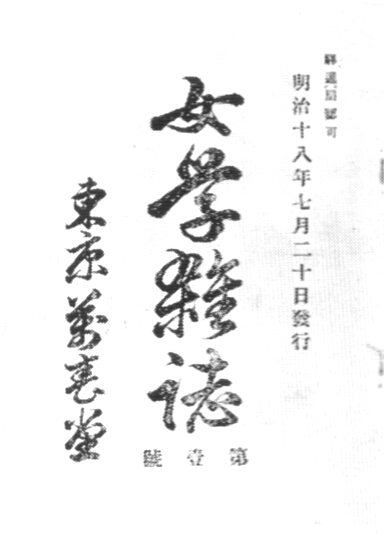 Jogaku Zasshi was a Japanese women's magazine published from 1885.7.20 until 1904.2.15.